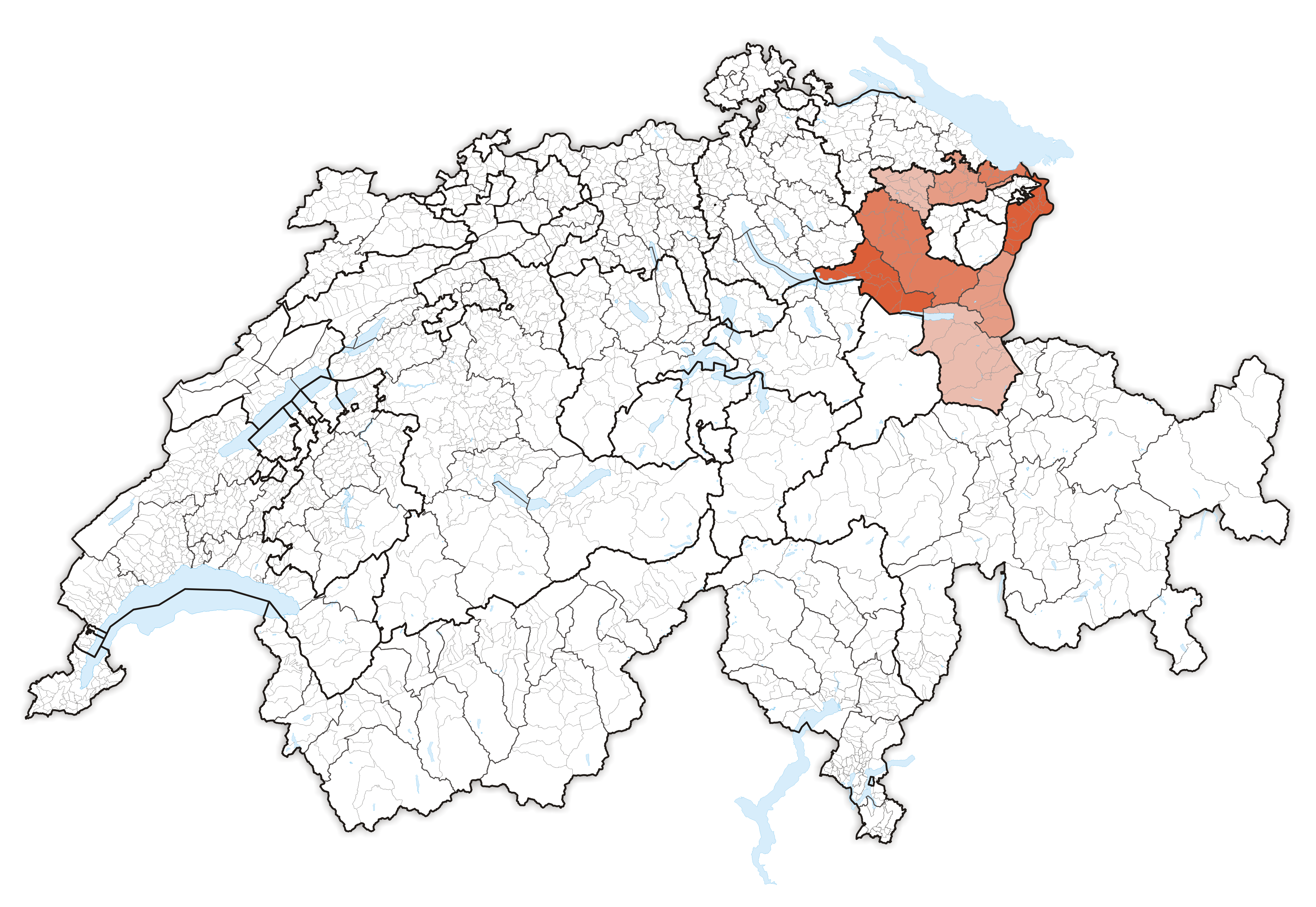 Canton St. Gallen